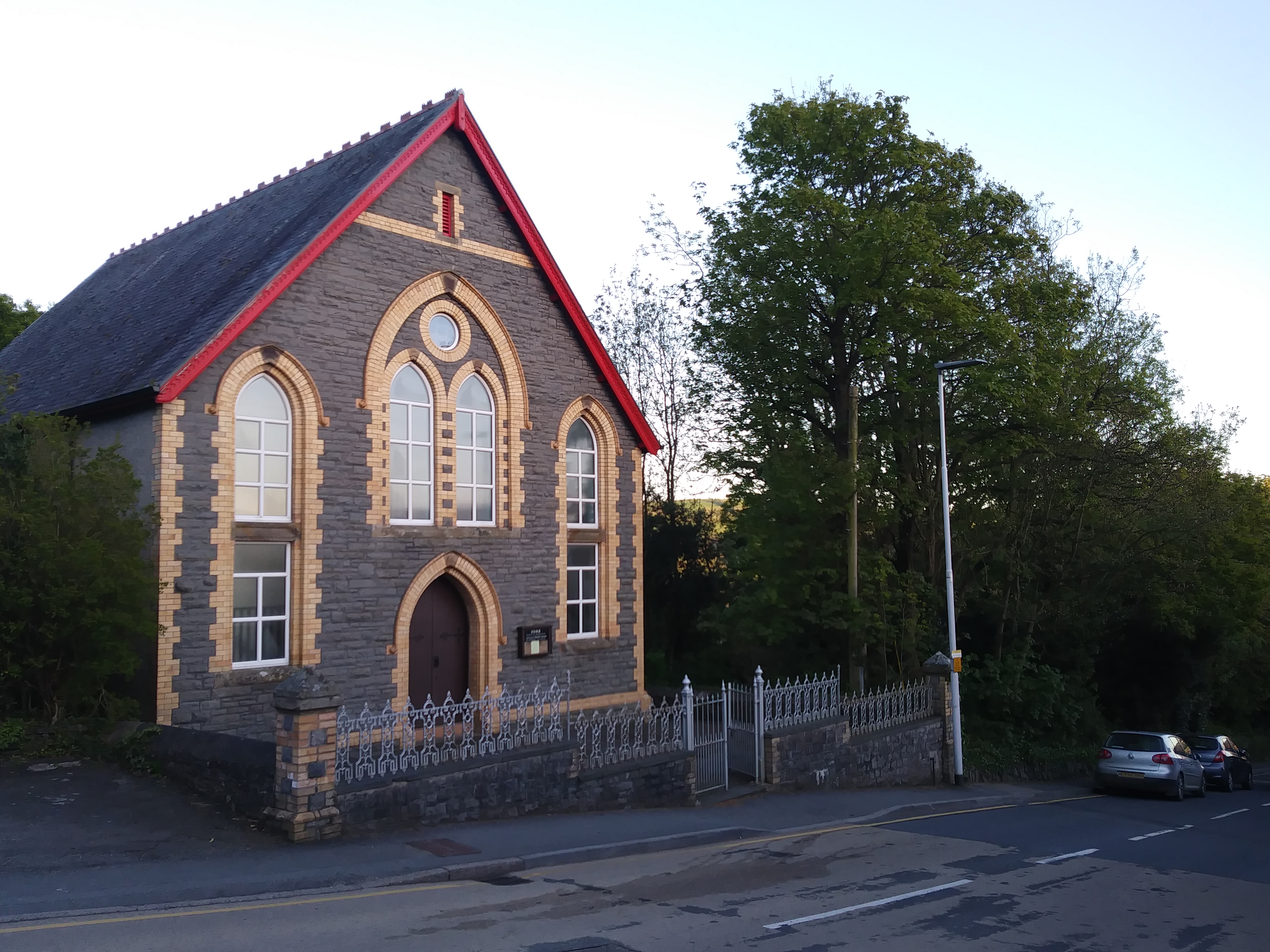 Capel Soar Llanbadarn Fawr, Aberystwyth